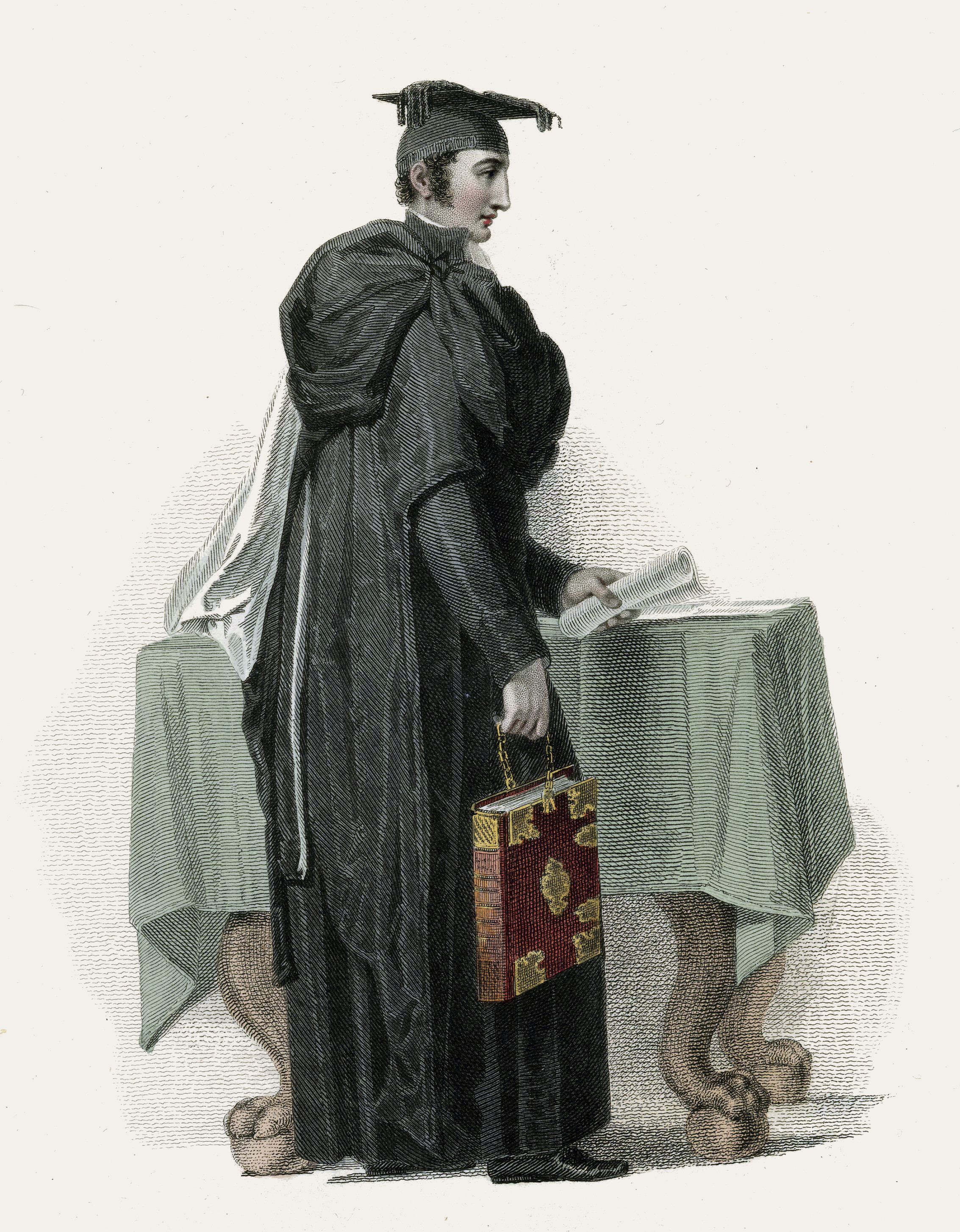 Proctor of the University of Cambridge. From "History of the University of Cambridge" (1815) by William Combe (1742-1823), illustrations by John Samuel Agar (1773-1858) after Thomas Uwins (1782-1857).